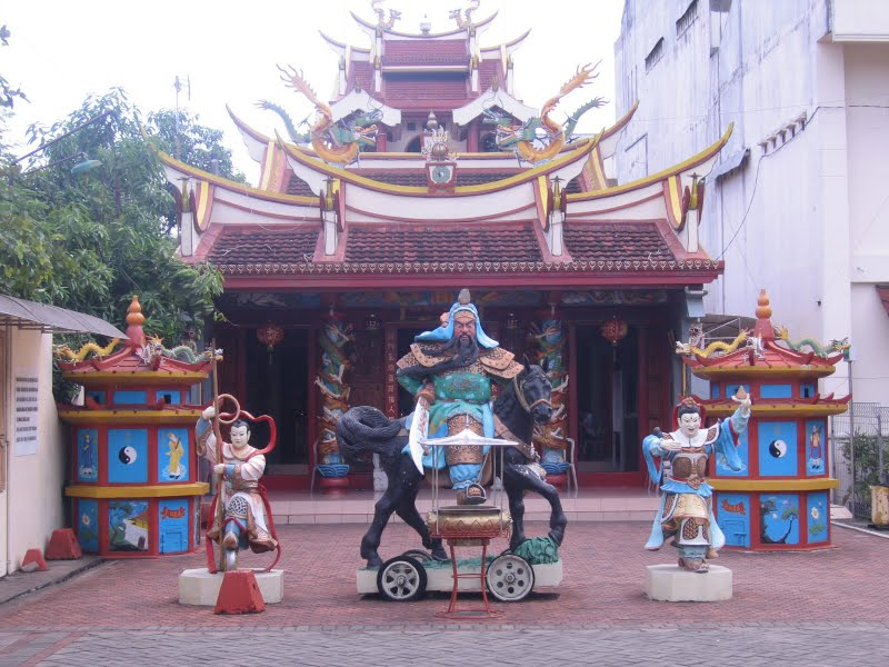 Kwan Seng Ta Tie, Manado, Indonesia